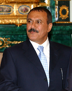 THE KREMLIN, MOSCOW. With the President of the Republic of Yemen, Ali Abdullah Saleh.